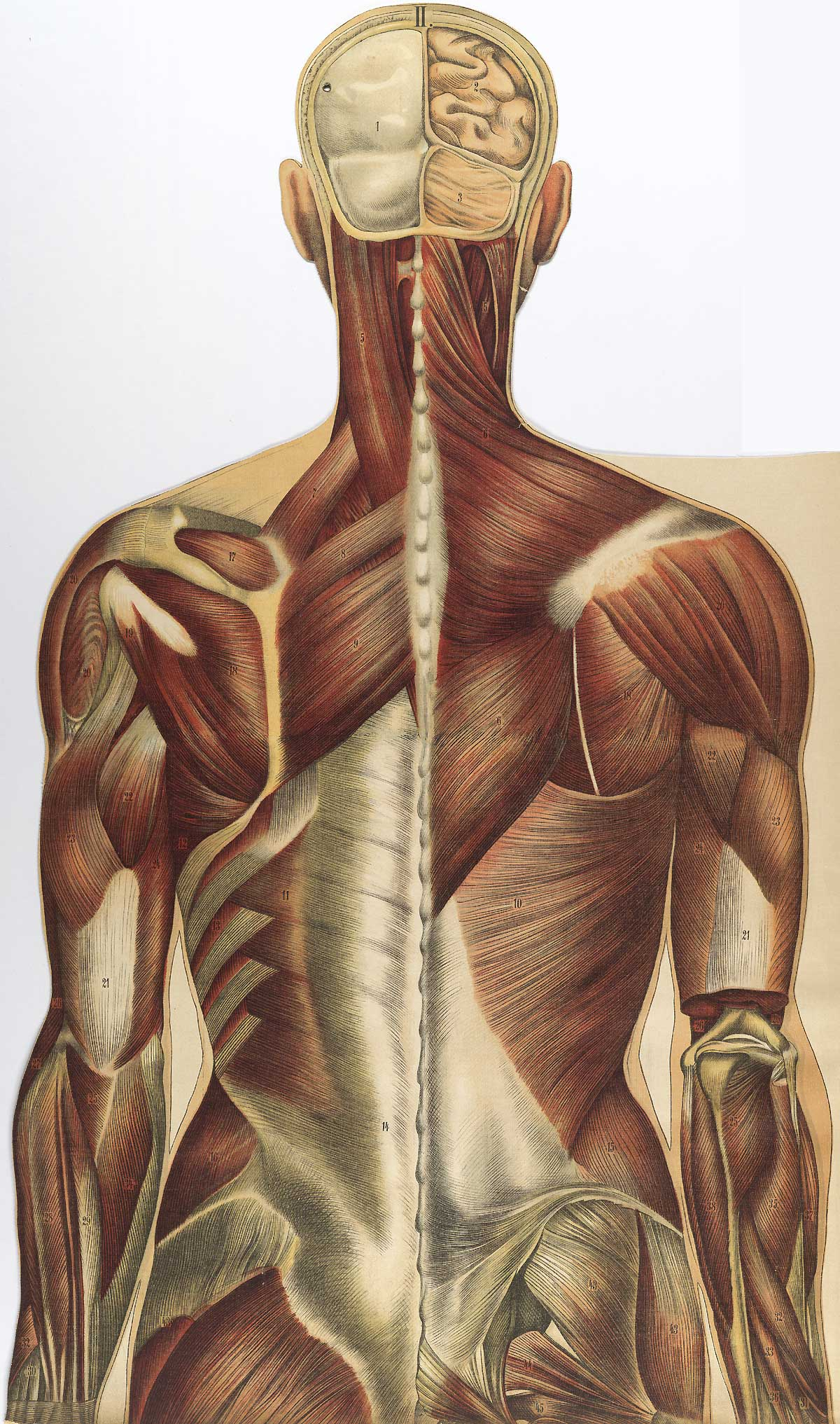 Title: Le corps humain et grandeur naturelle : planches coloriées et superposées, avec texte explicatif. Author(s)/Name(s): Bouglé, Julien. Publisher: Paris : J. B. Baillière et fils, 1899. Description: 1 plate : col. ill. Language: fre Electronic Links: MeSH Subjects: Anatomy Atlases Notes: "Texte explicatif": 15 p. inserted in pocket. Portions also available online. NLM Unique ID: 0227562